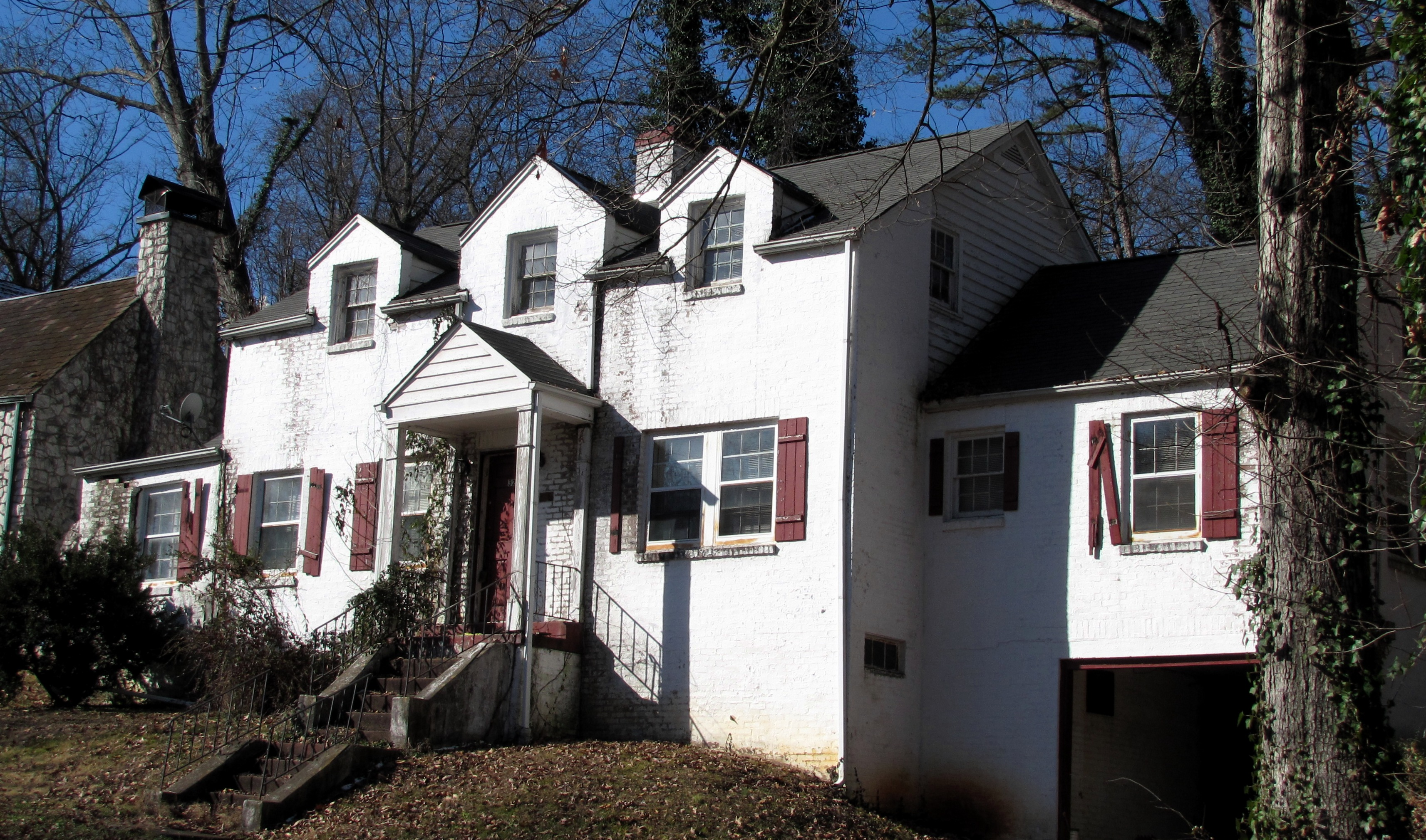 House at 3209 Woodbine Avenue in the Chilhowee Park neighborhood of Knoxville, Tennessee, USA. This house was built circa 1921.